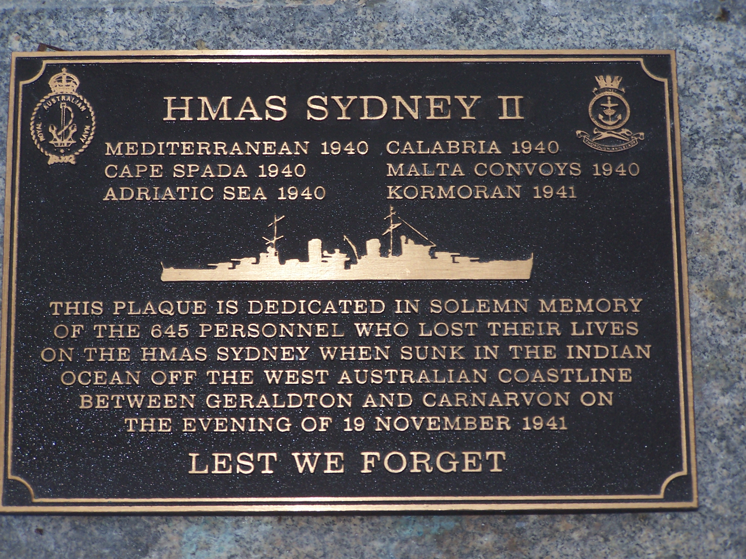 Memorial plaque at the Western Australia War Memorial, Kings Park.